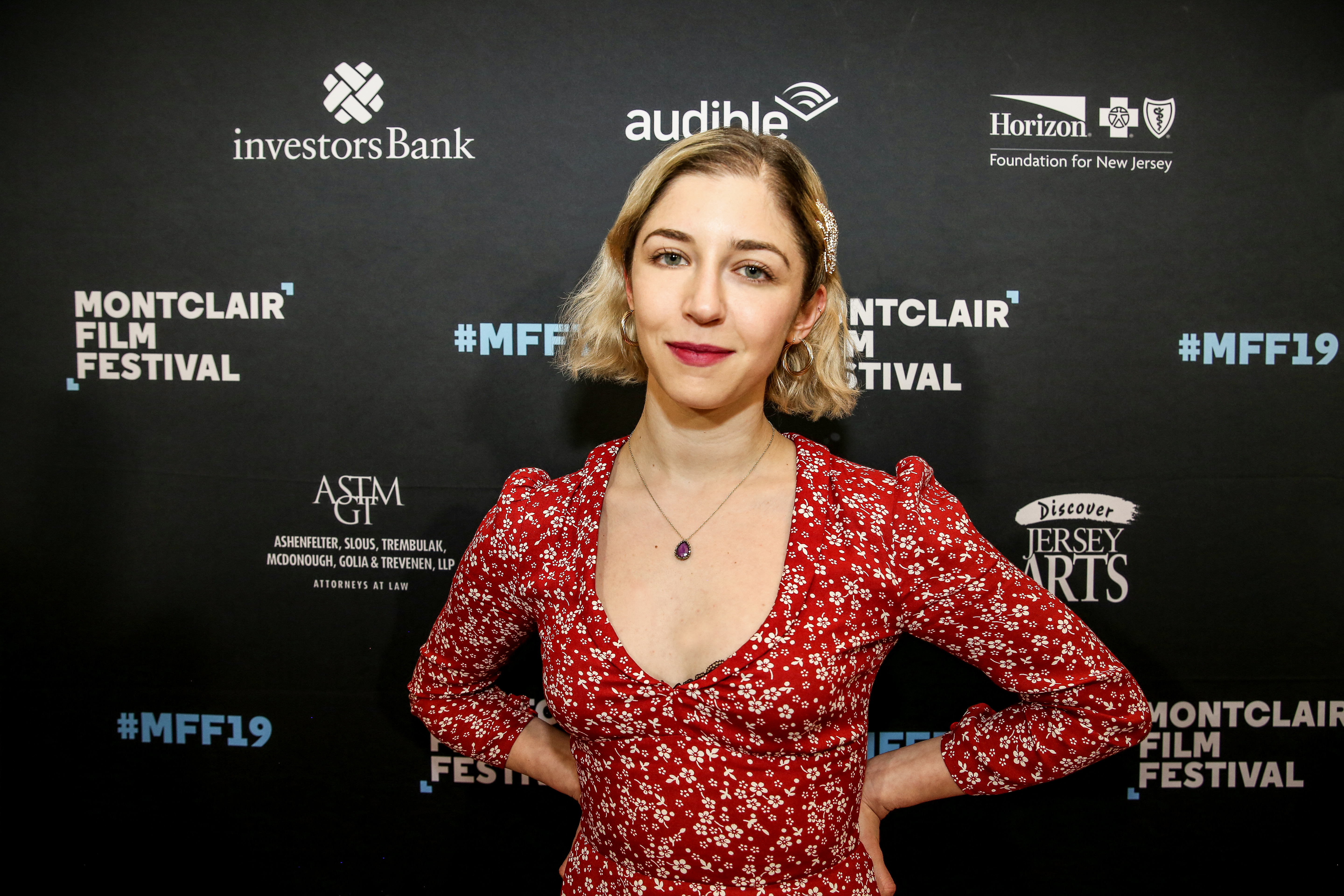 Annabelle Attanasio at the premiere of Mickey and the Bear during the Montclair Film Festival 2019.